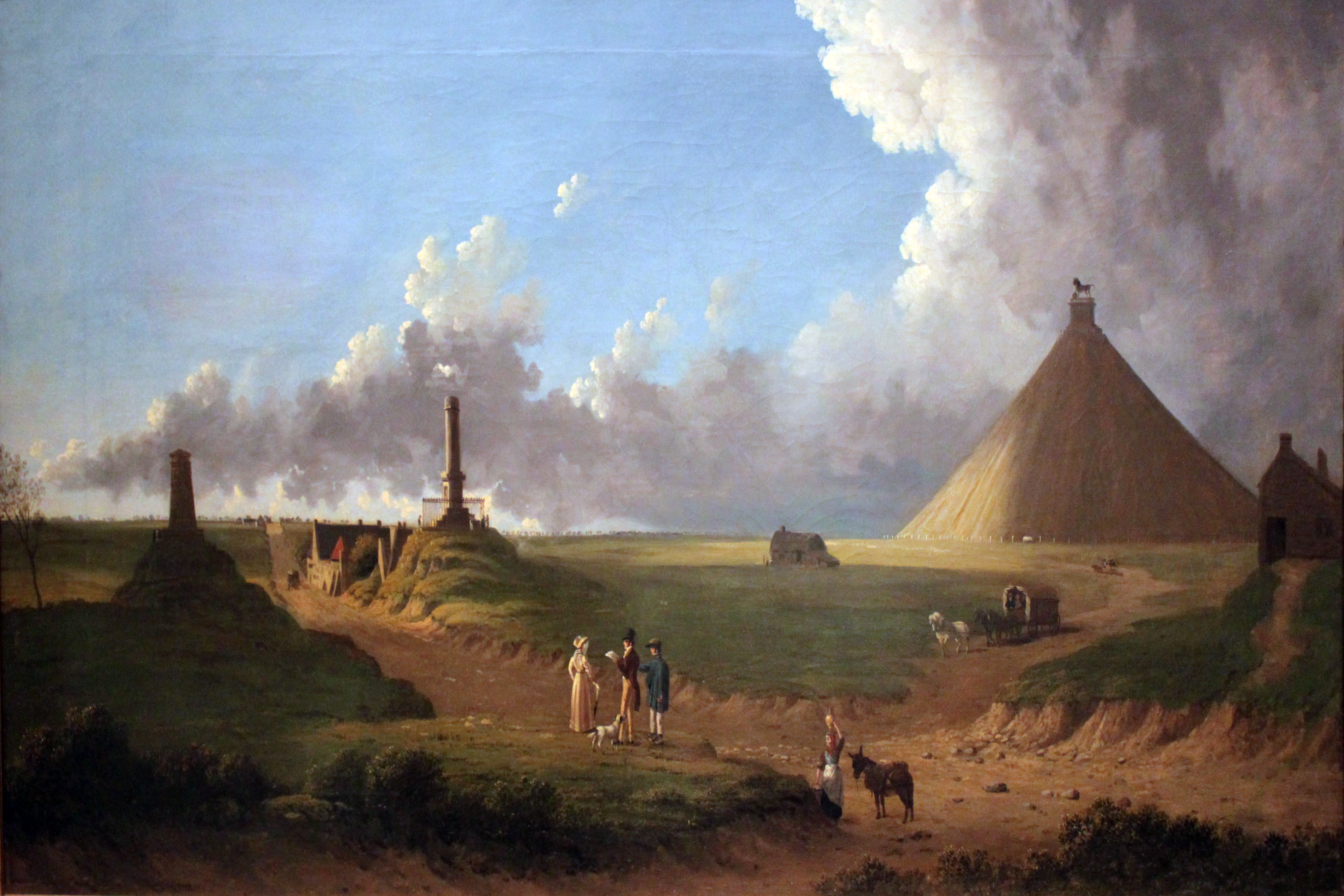 Tourists visiting the battlefield by Waterloo